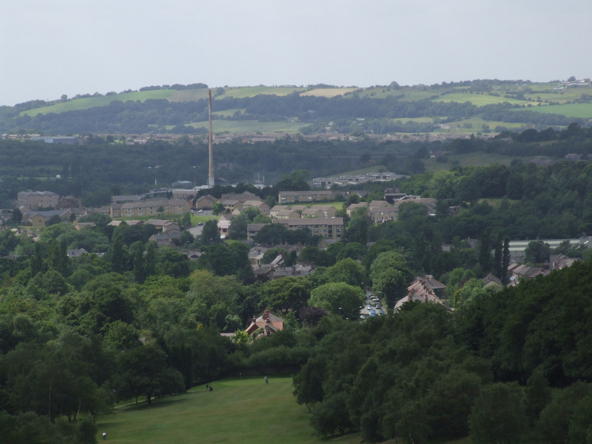 The Snake Pass, in the Pennines above Glossop follows the Hurst Brook and Holden Clough, to Doctor's Gate Culvert and the Lady Clough to Penistone. Looking down on Glossop. - Google Maps - Google Earth